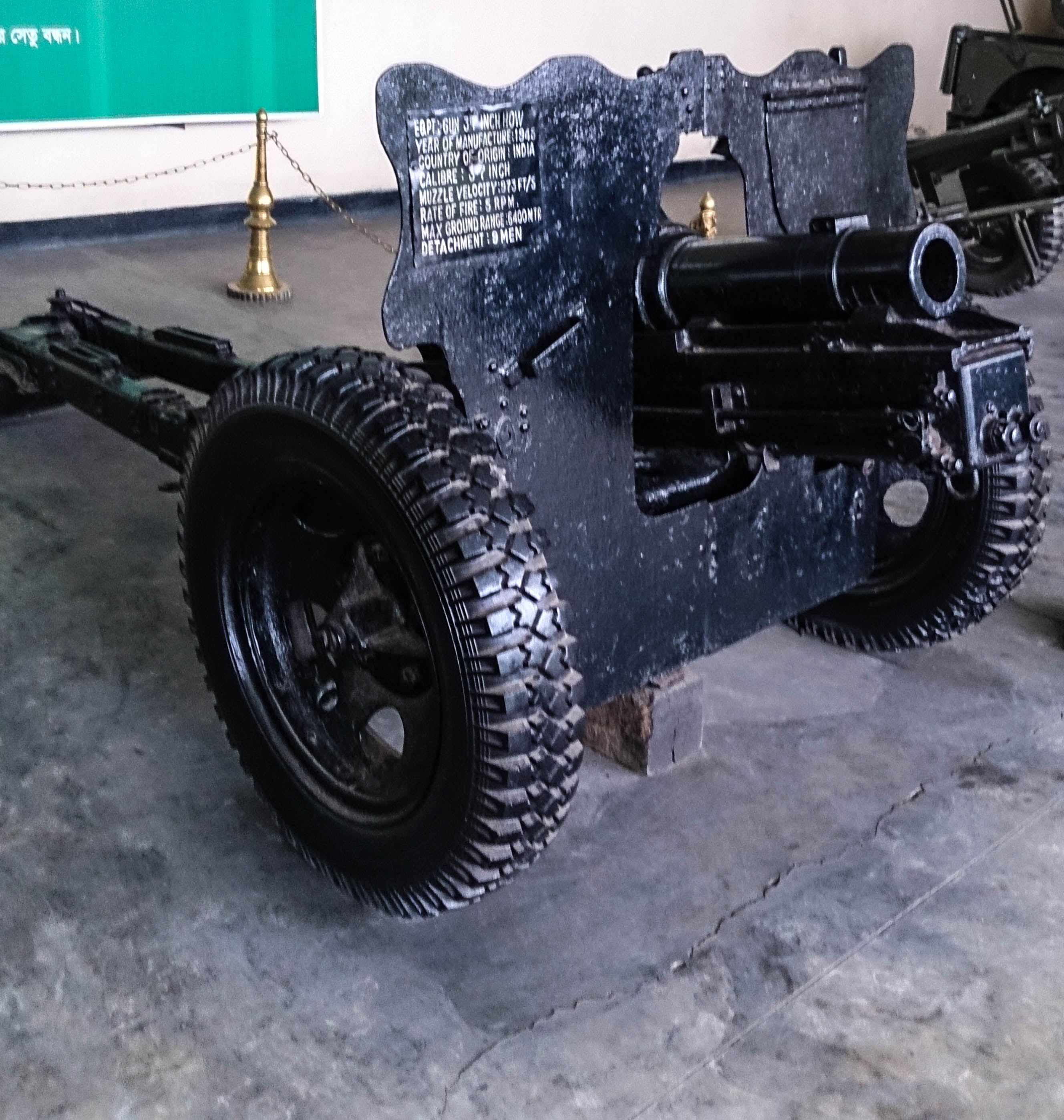 Photograph of British QF 3.7-inch mountain howitzer, at Bangladesh Military Museum, Dhaka. Guns used by "Mujib Battery" in 1971 Bangladesh liberation war.